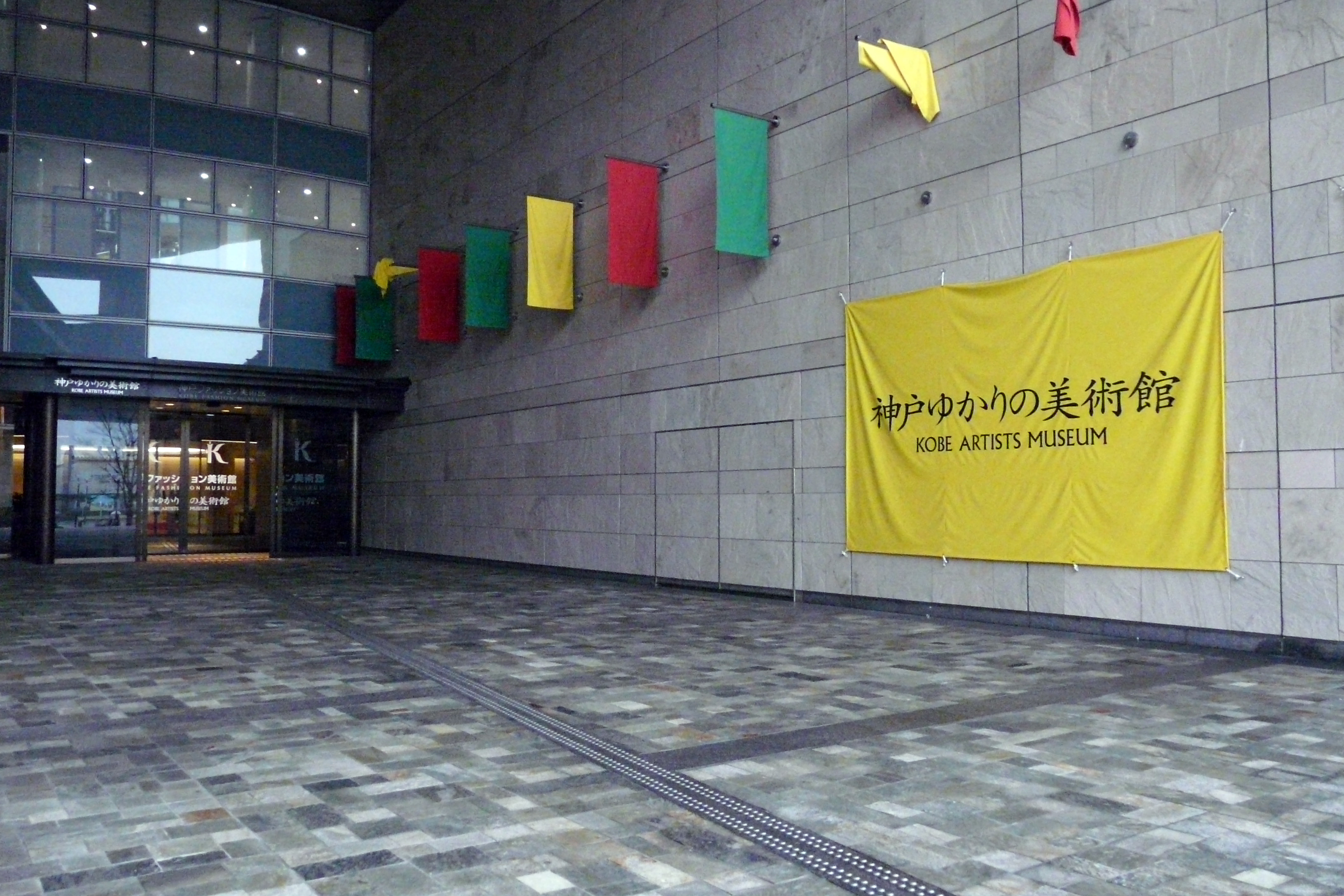 Kobe Yukari Art Museum in Rokko Island, Kobe, Hyogo prefecture, Japan